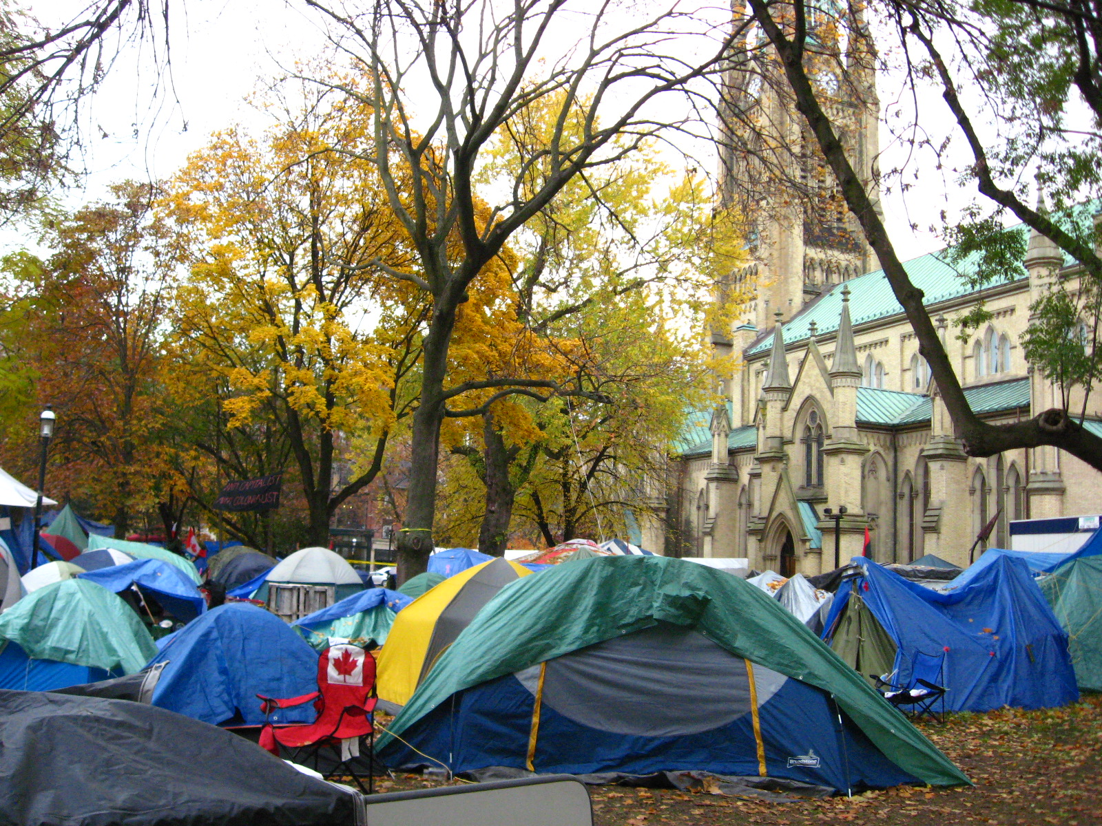 "Occupy Toronto" tents in front of the Cathedral Church of St James